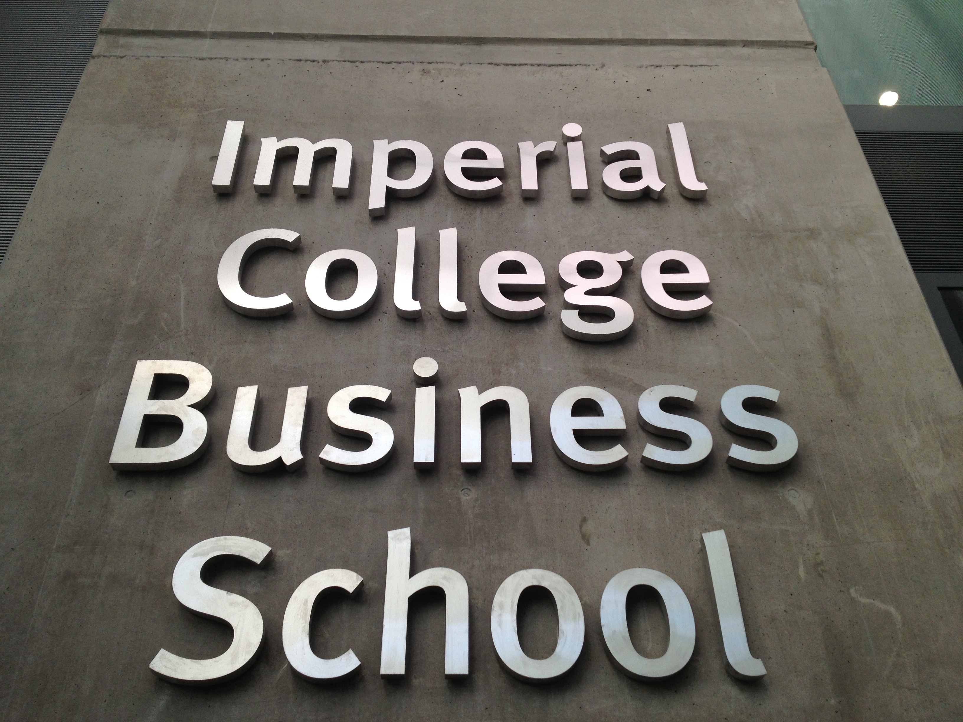 Imperial College Business School Entrance Logo